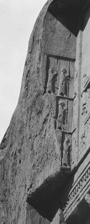 Left side wall Tomb of Darius I